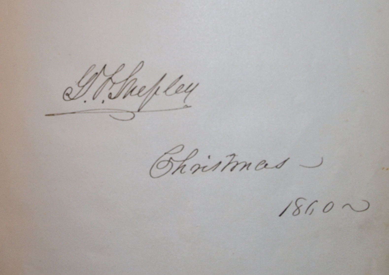 General George Foster Shepley Autograph from a autograph book given by General Shepley to his daughter Anne at Christmas, 1860